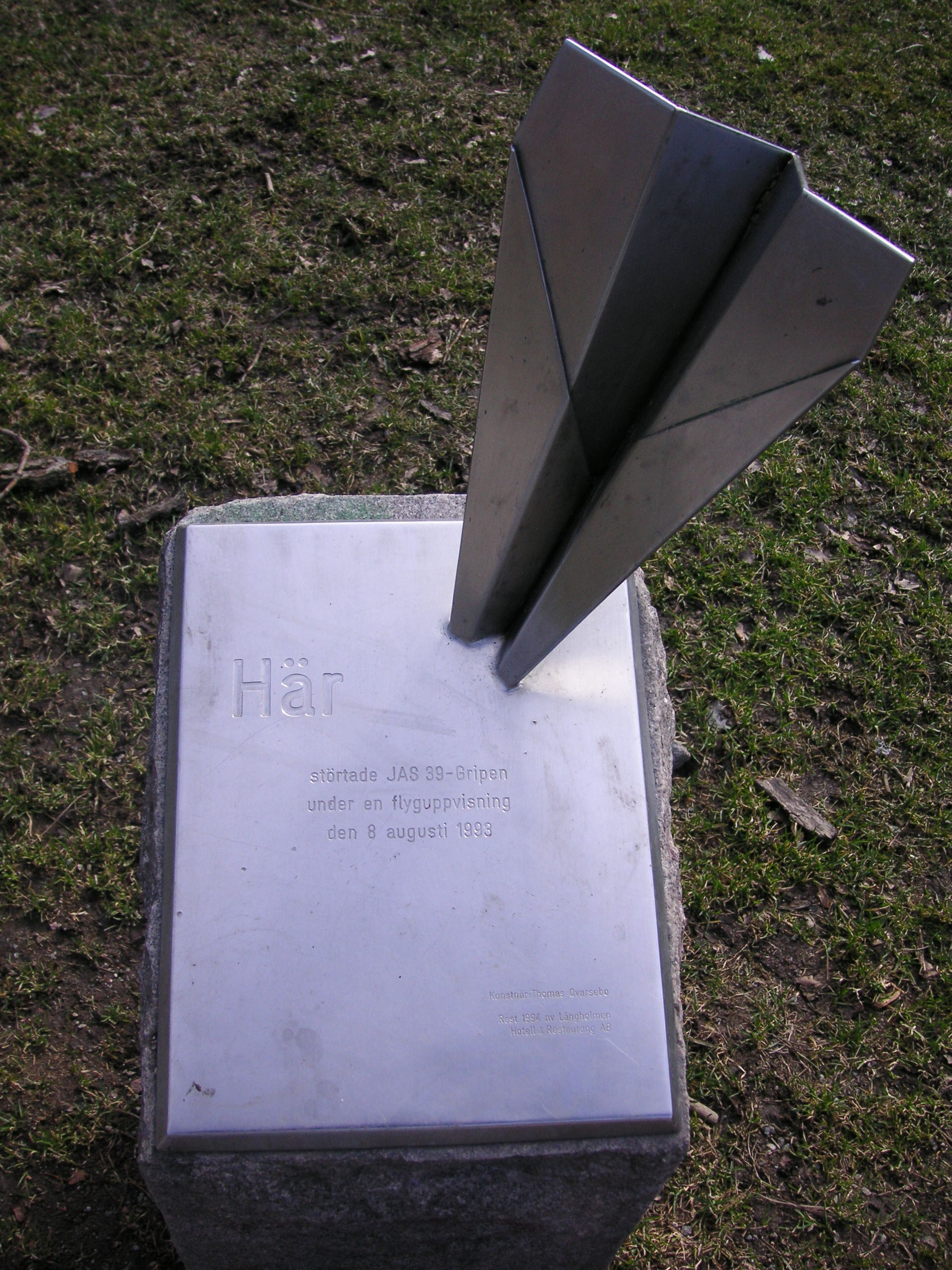 Crash site of a Saab 39 Gripen on the island Långholmen in central Stockholm. The monument is a paper plane in stainless steel partially embedded in a stone. "This is the crash site of a Saab 39 Gripen at an air show August 8th 1993 Sculptor: Thomas Qvarsebo Raised in 1994 by Långholmen Hotel & Restaurant Ltd."